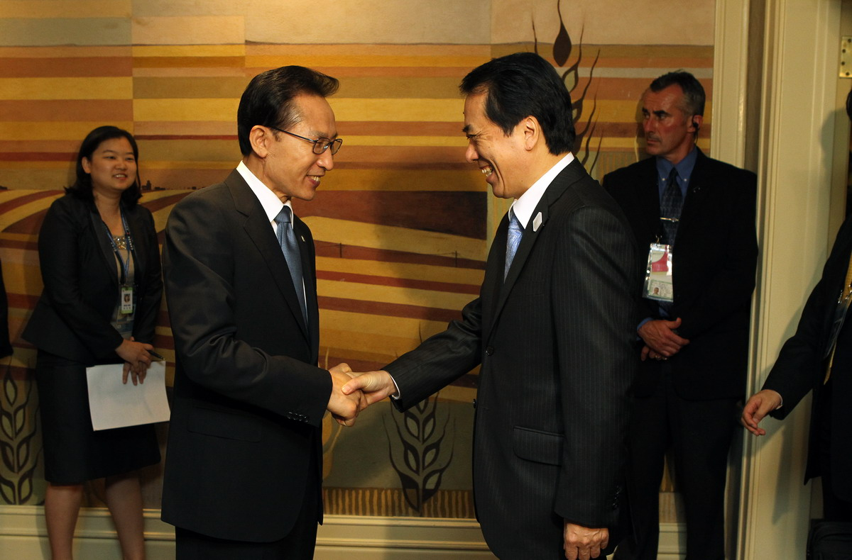 President Lee Myung-bak (l) shakes hands with new Japanese Prime Minister Naoto Kan (r) at the occasion of the G-20 Financial Summit meeting in Toronto, Canada on Saturday (Jun. 26).